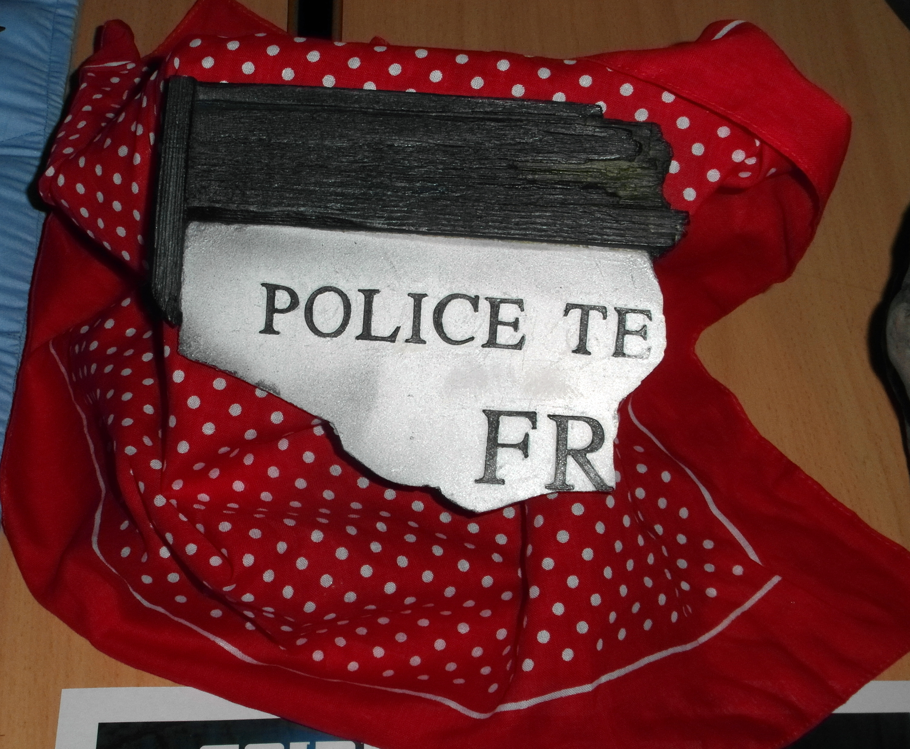 From the episode Cold Blood. Science of the Time Lords event at the National Space Centre, 16th November 2013. Doctor Who Experience